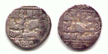 Telebuga - Silver Coin